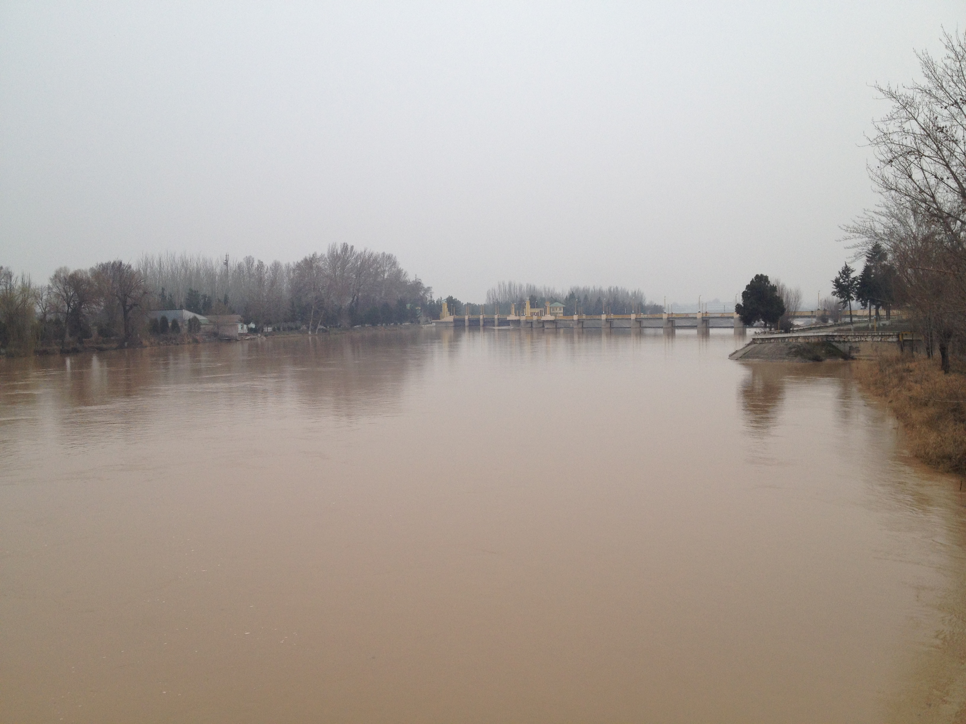 Karadarya river near Andijan city (in the background - head of Karadarya tract of Great Fergana Canal)